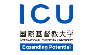 New university logo